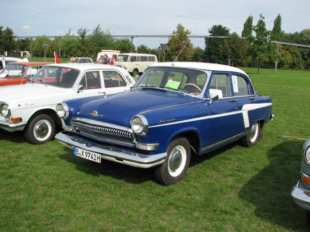 GAZ-M-21 Diesel. Maded on Skoda. (Scaldia made?). Foto taken at retro parade in Magdeburg/Germany